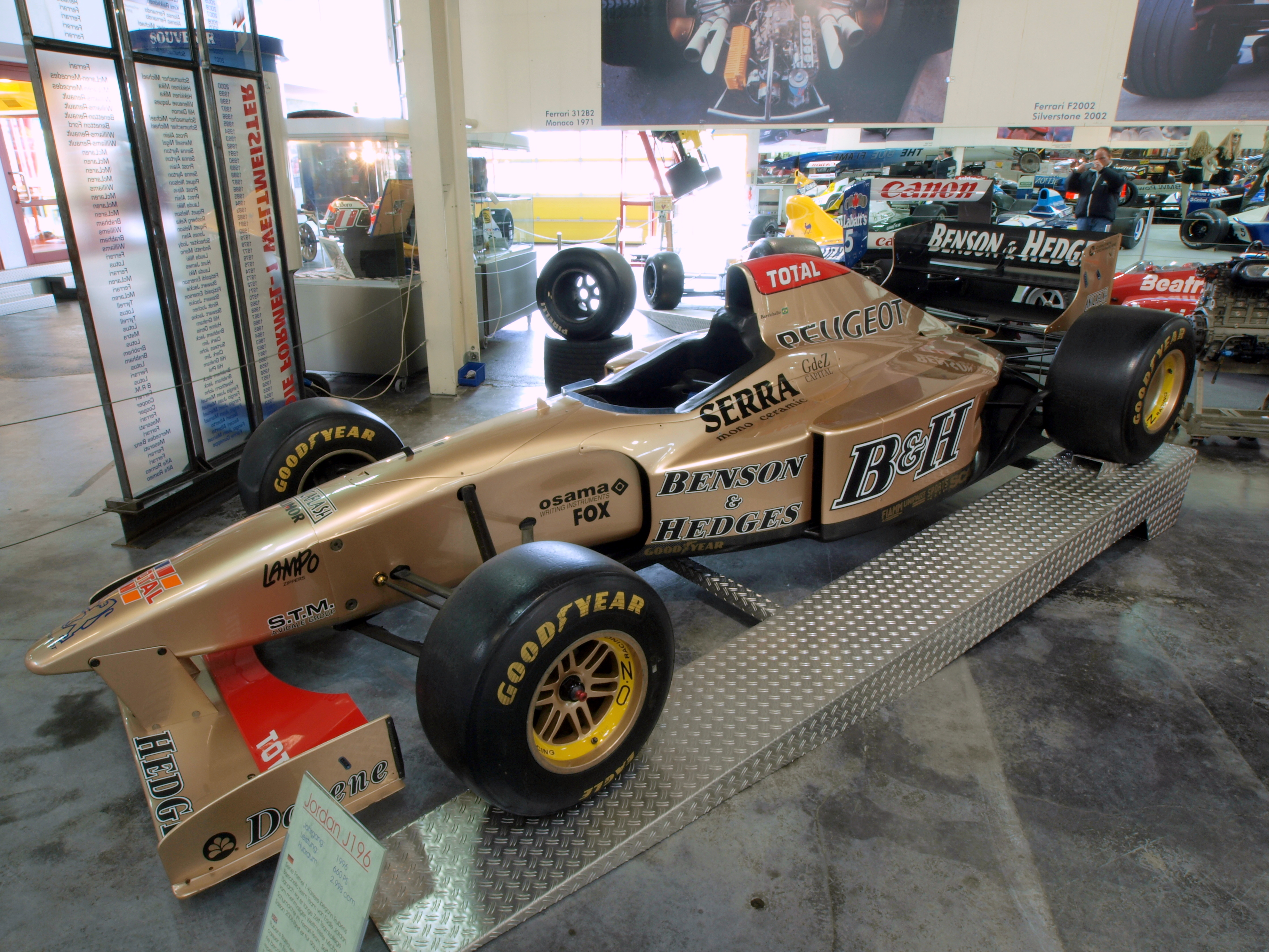 Photographed at the Auto & Technic museum Sinsheim.